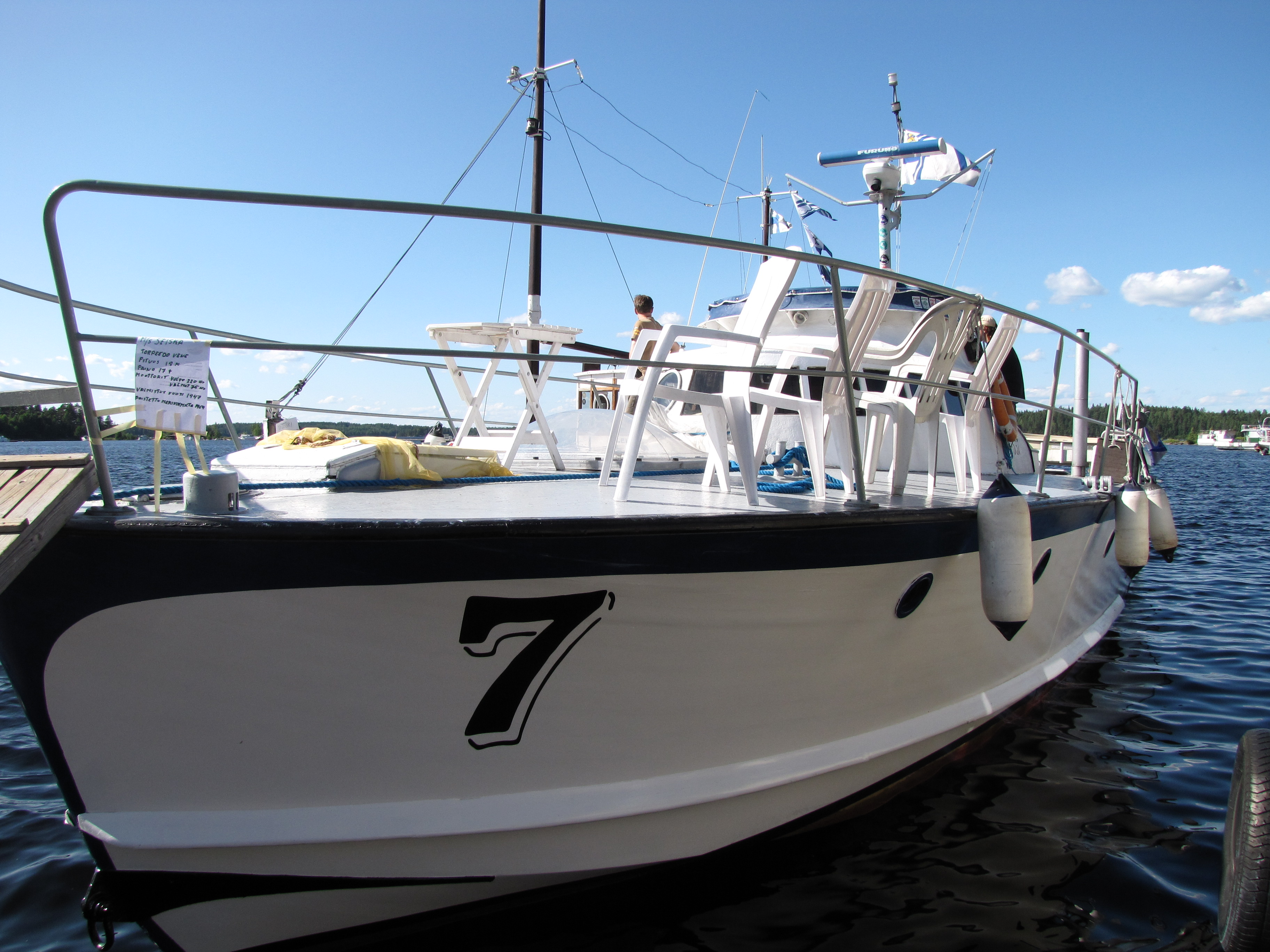 Seiska, former Finnish navy motor torpedo boat Taisto 7 in heritage ship meeting in Imatra 2009.